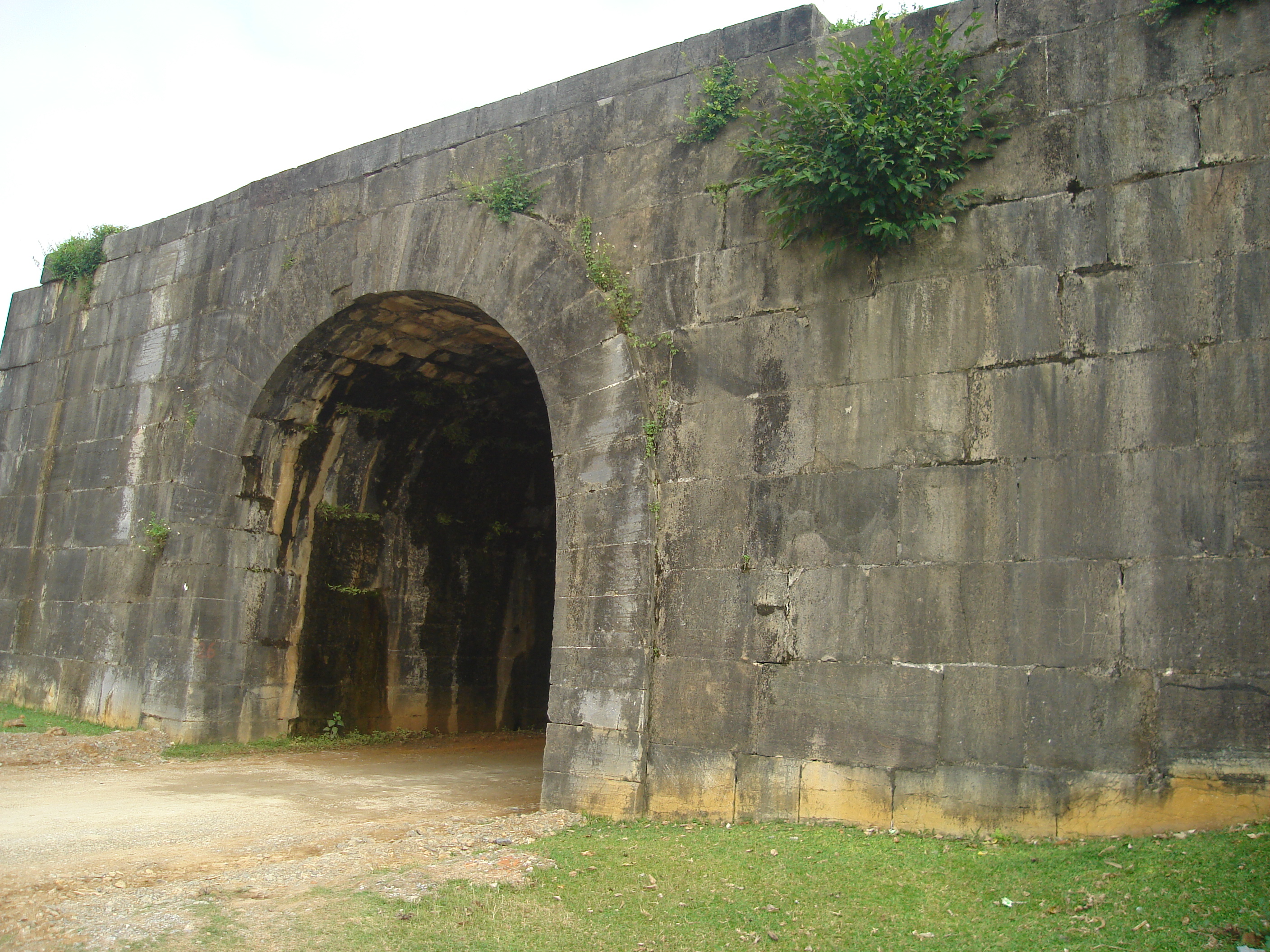 The North (back) gate of Tay Do castle, Thanh Hoa Province, Vietnam